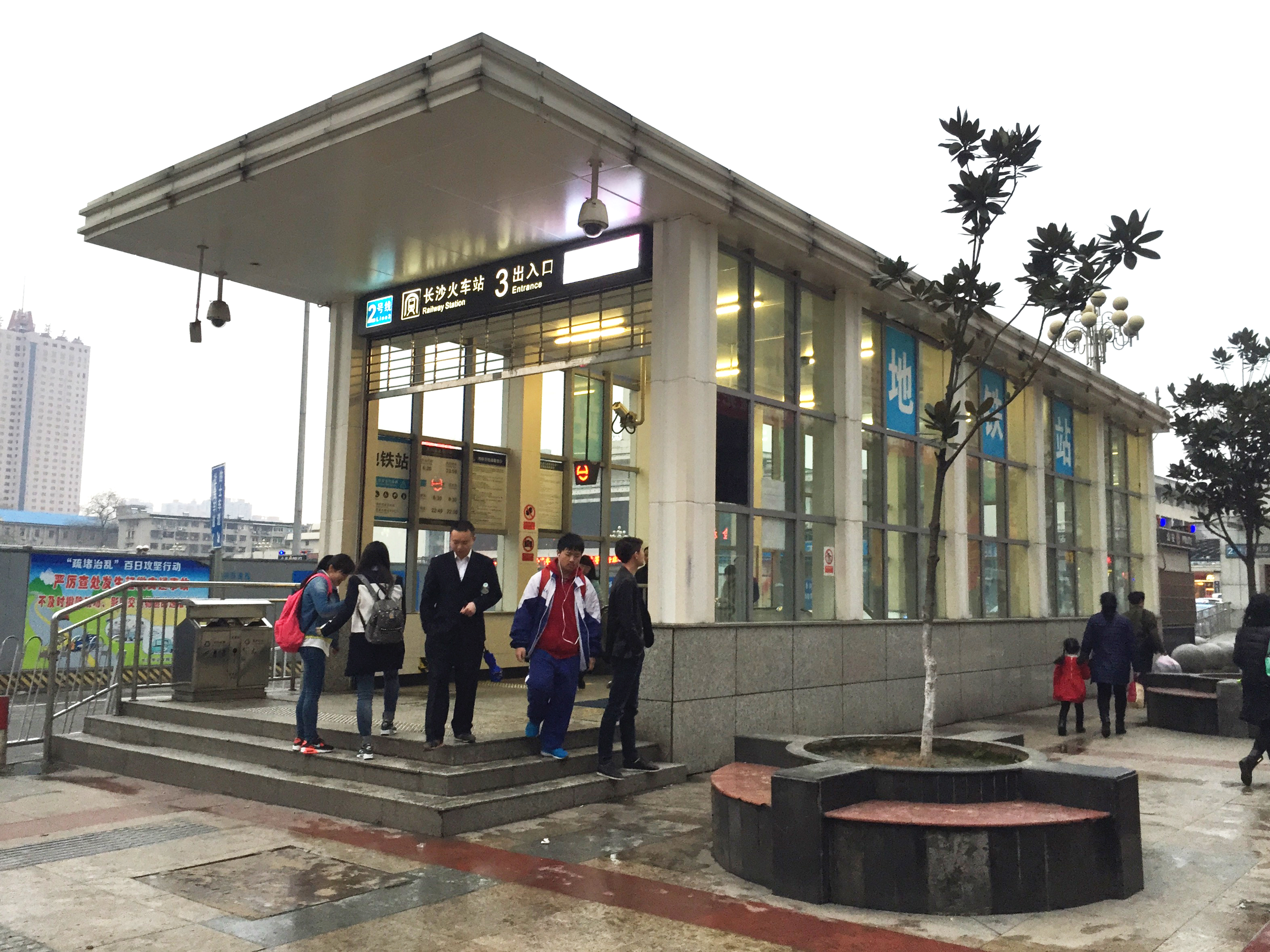 Closest to the railway station? Just in front of the ticket office.